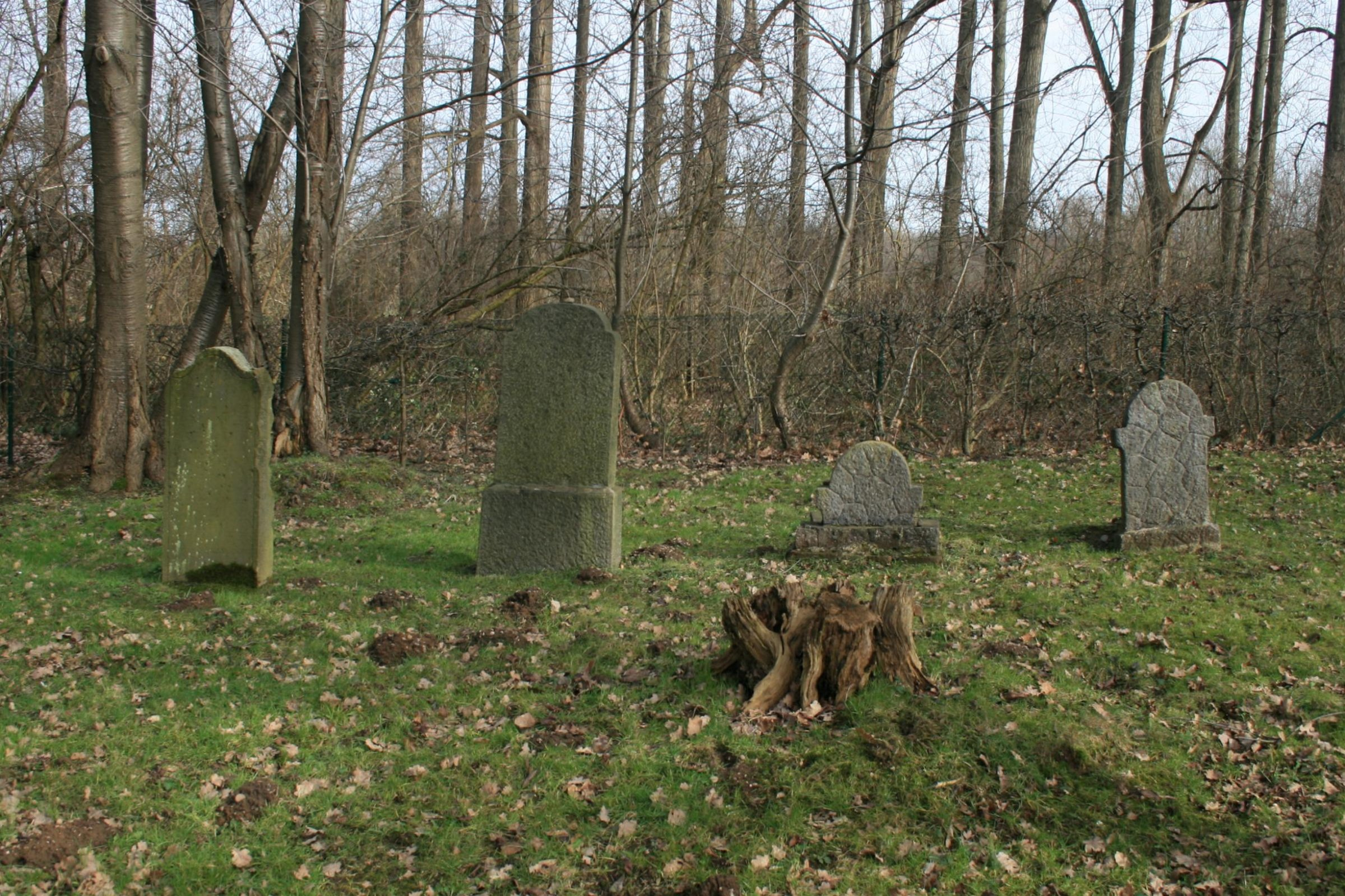 Cultural heritage monument No. 29 in Inden